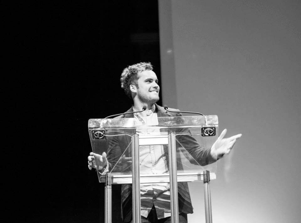 Brent Hodge in Vancouver, for the Canadian premiere of A Brony Tale